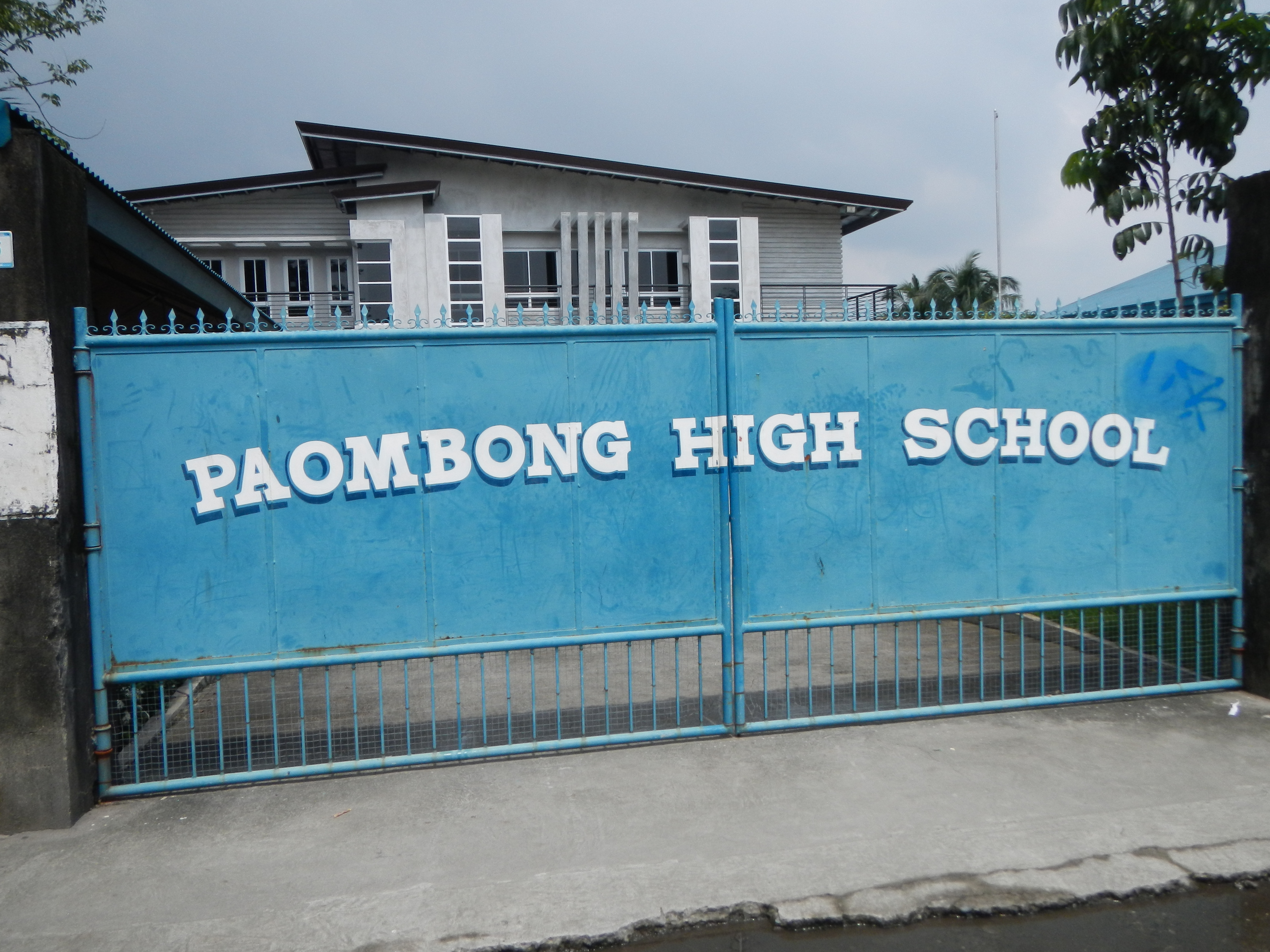 Paombong, Bulacan Barangay Poblacion, Paombong, Bulacan - High School, beside Paombong, Bulacan Barangay San Roque, Paombong, Bulacan (landmarks are the San Roque High School, Paombong Central School, San Roque Chapel, UFO upon the Cross of this Chapel, Barangay Hall).